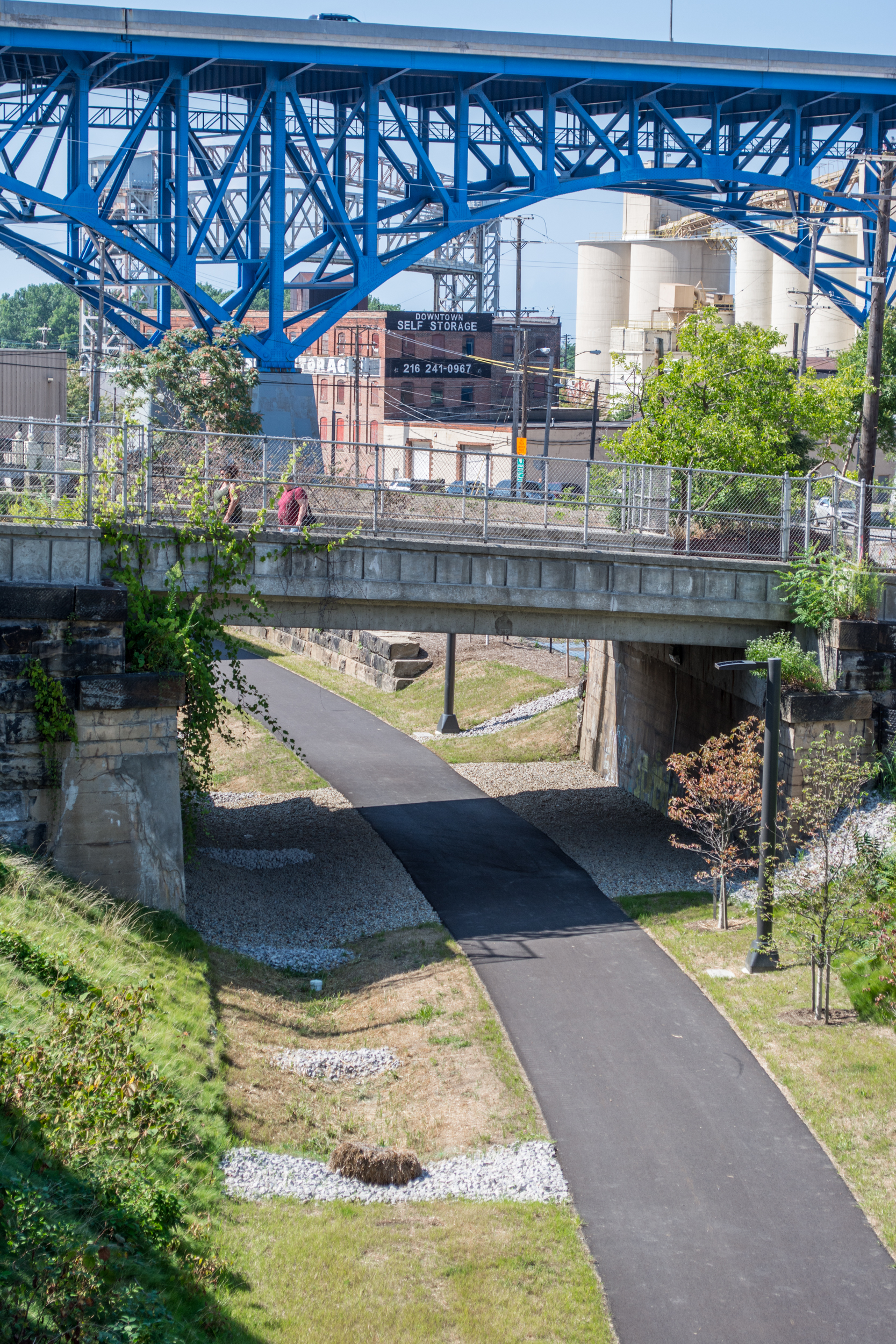 Looking north at the north leg of the Cleveland Foundation Centennial Lake Link Trail in Cleveland, Ohio, in the United States. This trail opened in 2017. It uses the abandoned right of way of the former Cleveland and Mahoning Valley Railroad.